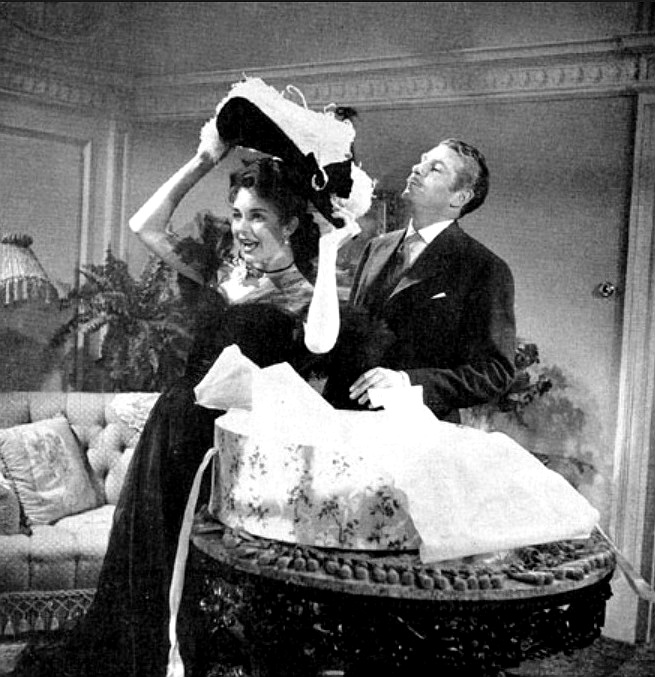 Photo of Jennifer Jones and Sir Laurence Olivier from the 1952 film Carrie.